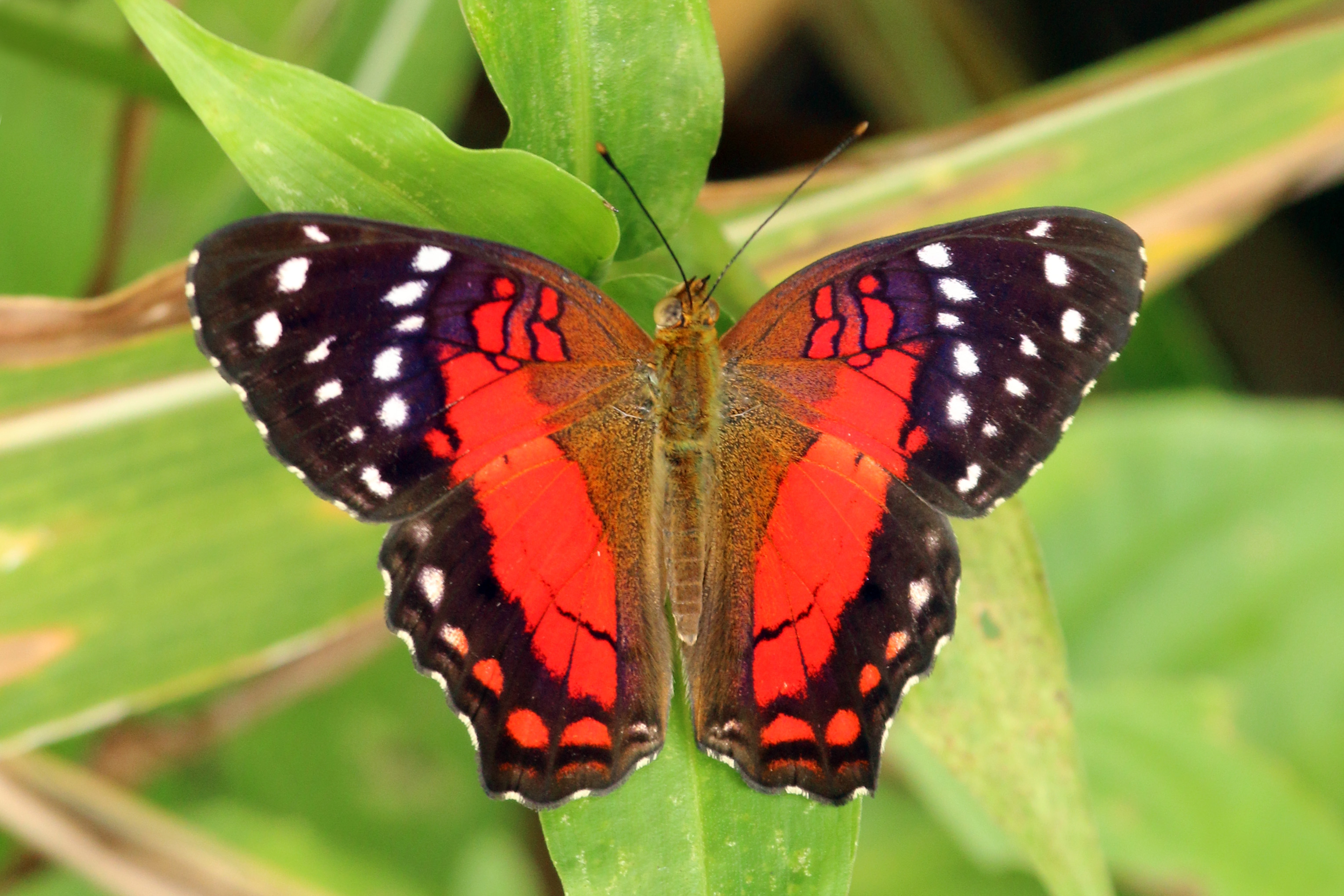 Scarlet peacock butterfly (Anartia amalthea) male, Tobago